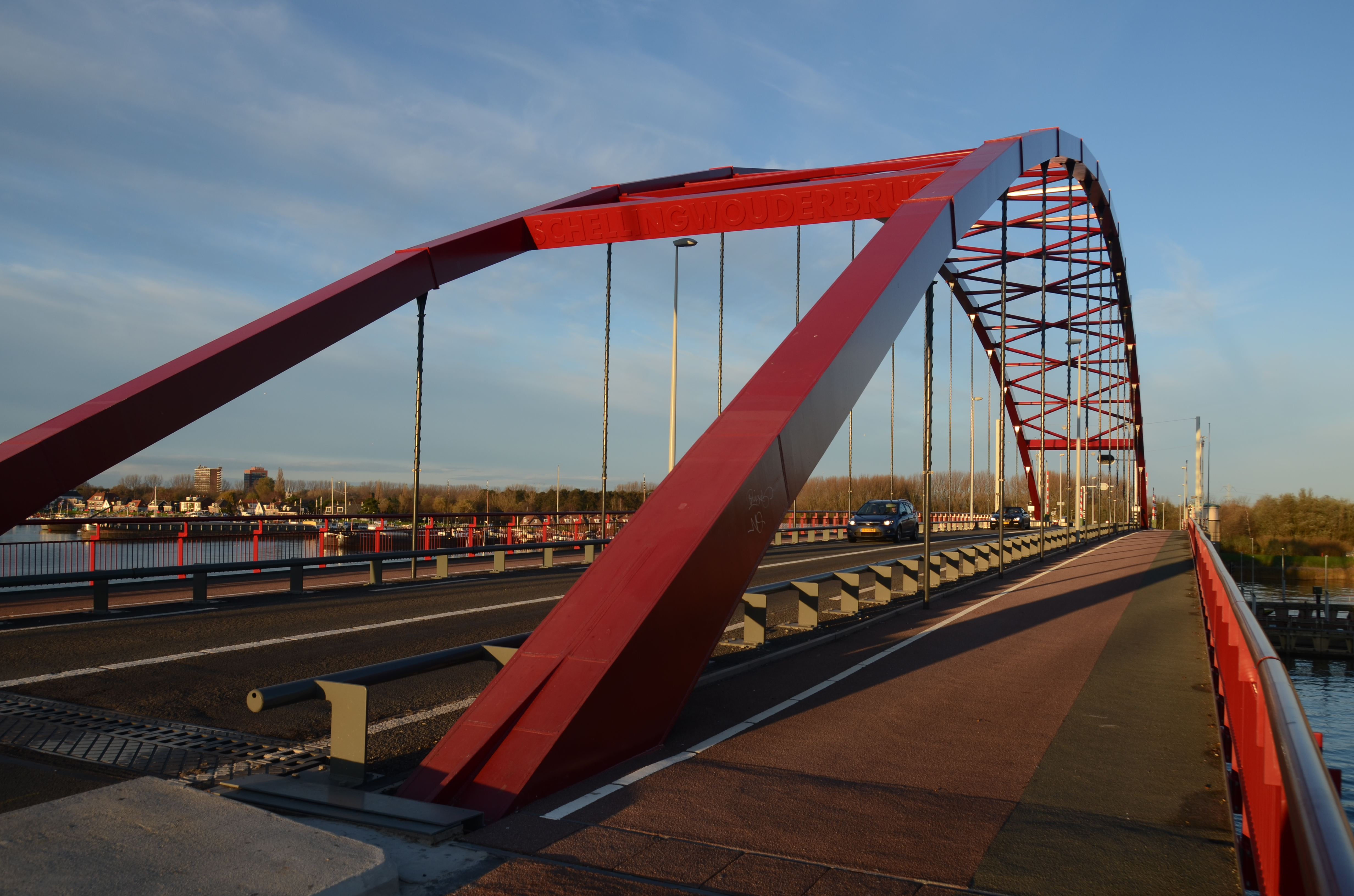 Although totally different from the architectural shape of modern bridges this pure arch structure can be nice